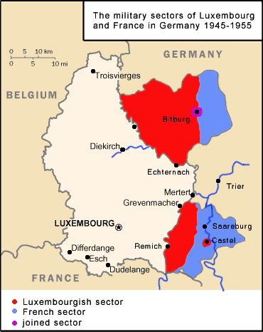 Description: Map showing the military sectors of Luxembourg and France in Germany after WWII between 1945 and 1955. source: *geographic map: originally from the United States Central Intelligence Agency's World Factbook released into public domain.*source for the placement of the sectors: book from the exhibition "Questions to the history of Luxembourg during the Second World War.", page 296. published by the Museum for the History of Luxembourg-City. Luxembourg 2002 drawings made by myself. author: user:Spanish_Inquisition date: 8.9.2006